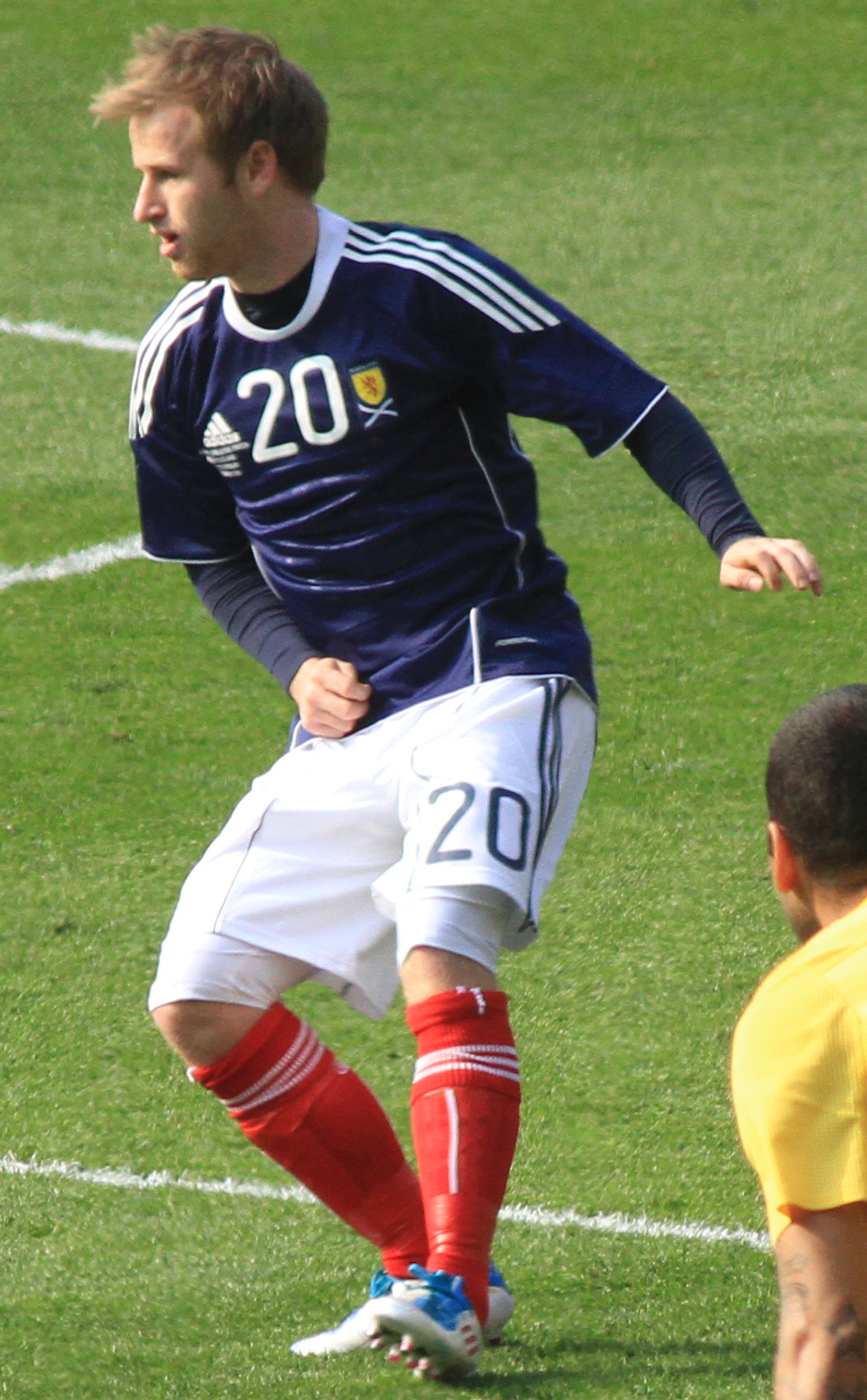 Barry Bannan and Daniel Alves